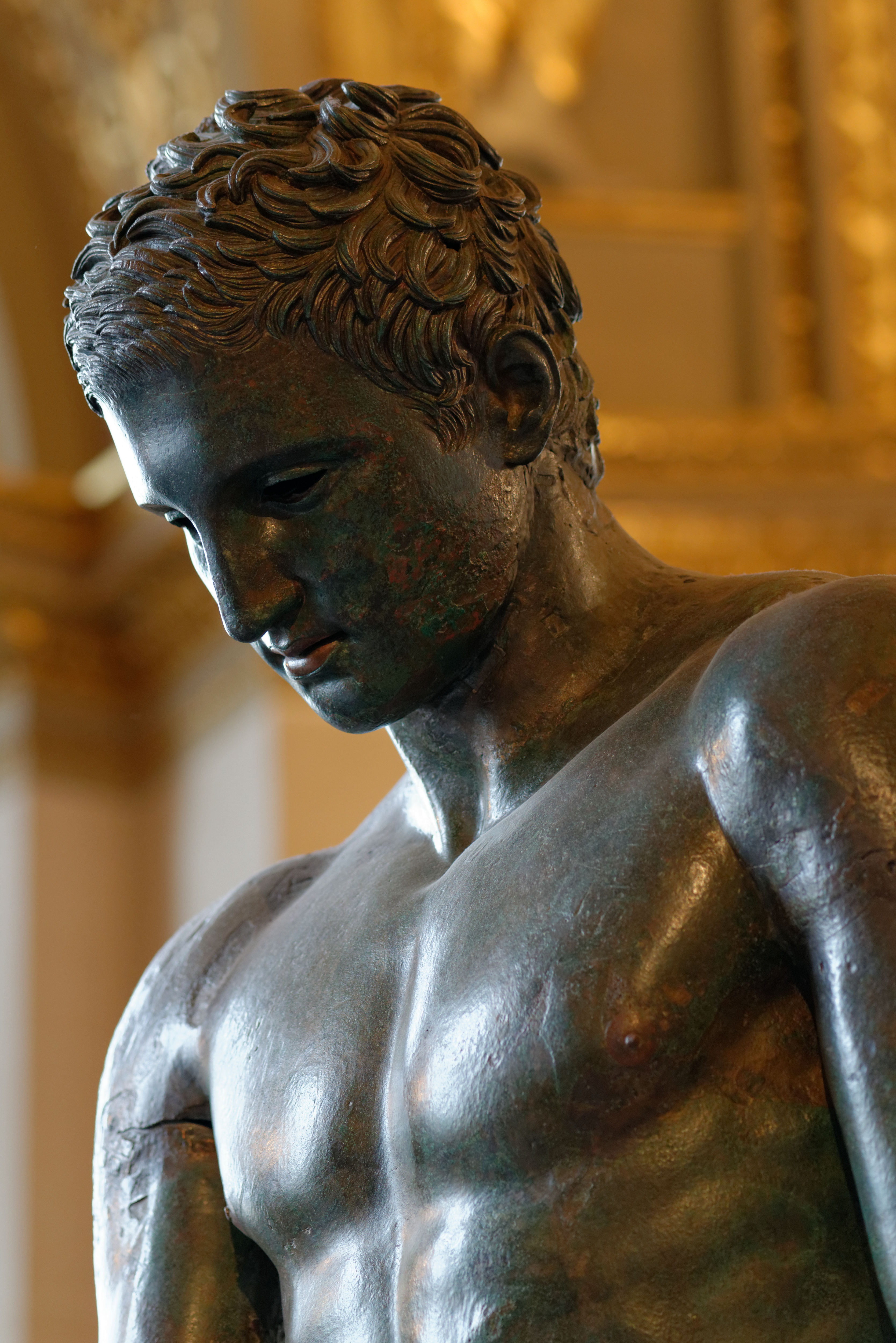 Statue of an athlete scraping himself or scraping his strigil.